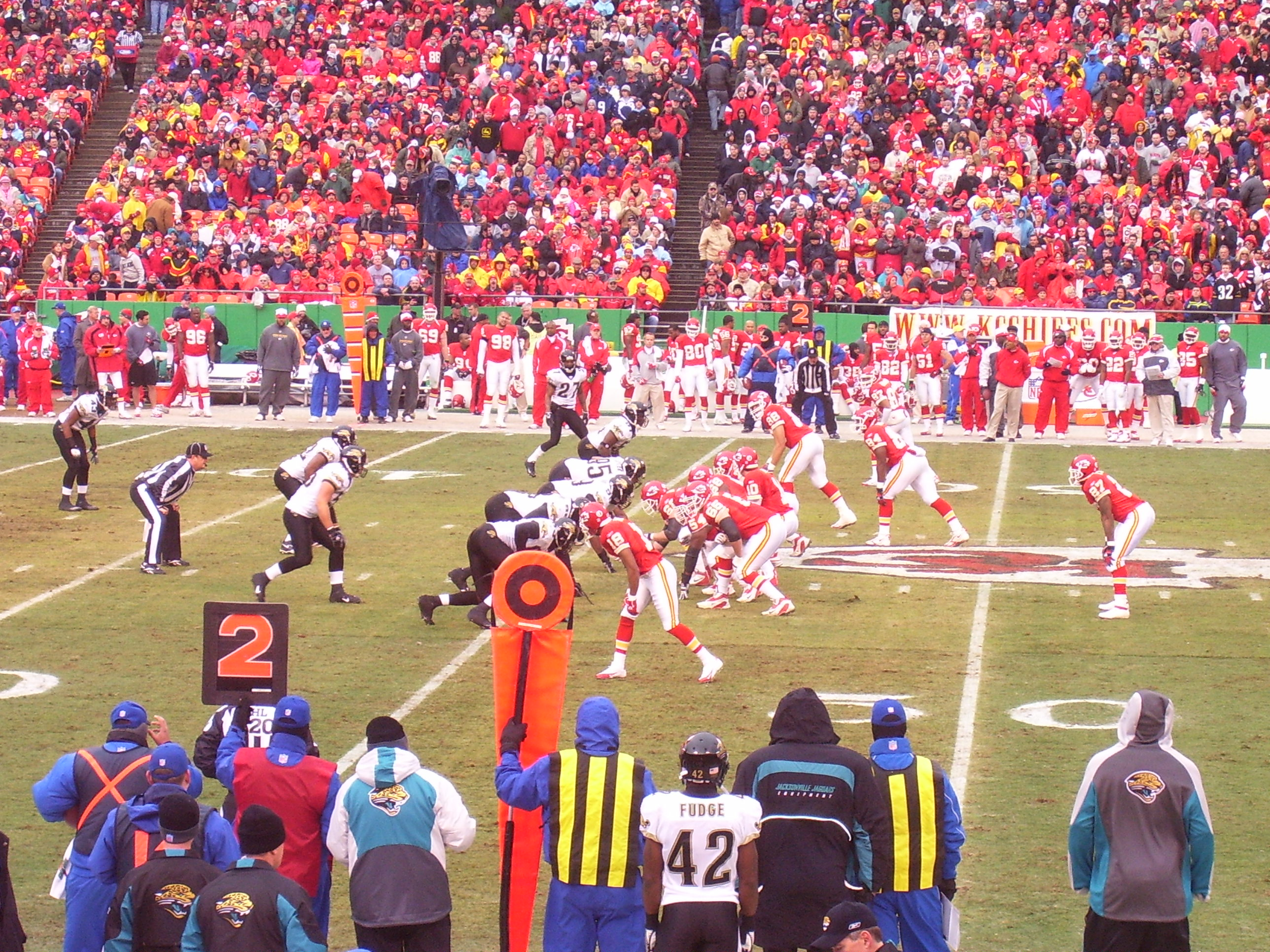 Jaguars at Chiefs, Arrowhead Stadium on December 31, 2006